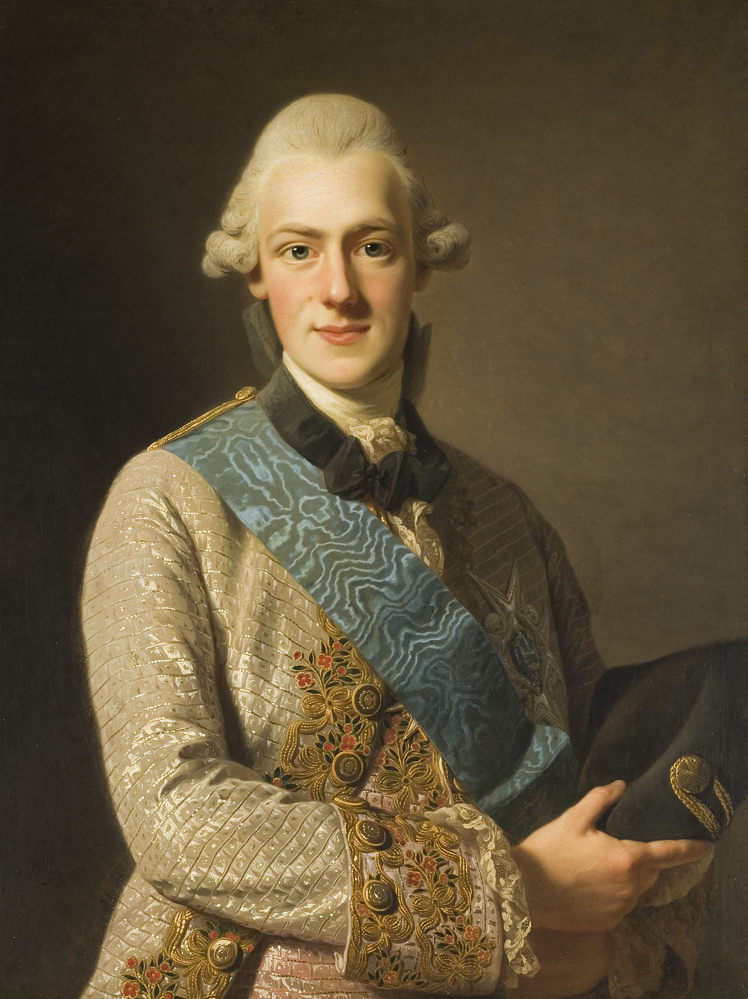 Prince Frederick Adolph of Sweden (1750-1803), Duke of Ostrogothia.